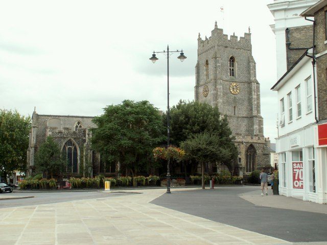 Church of St Peter in Sudbury, Suffolk, England. A Grade I listed medieval church.